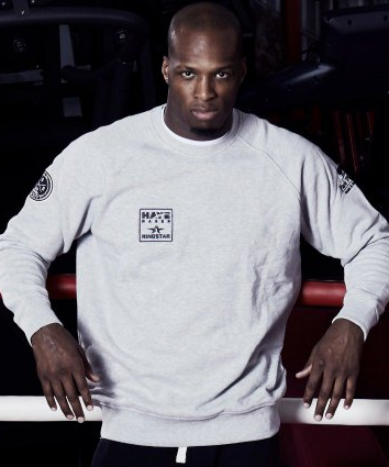 Michael Page Hayemaker Ringstar